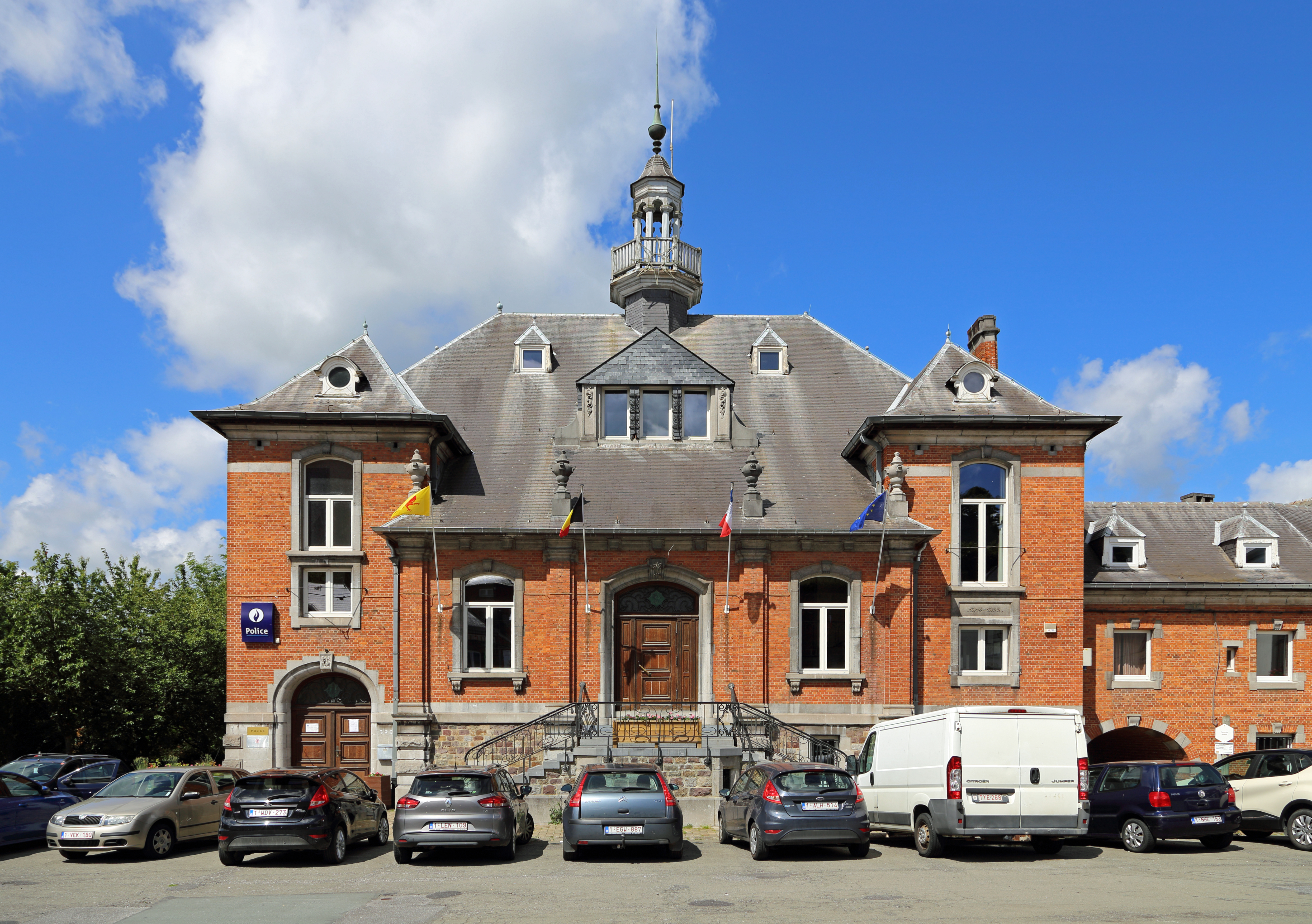 Lobbes (Belgium): town hall